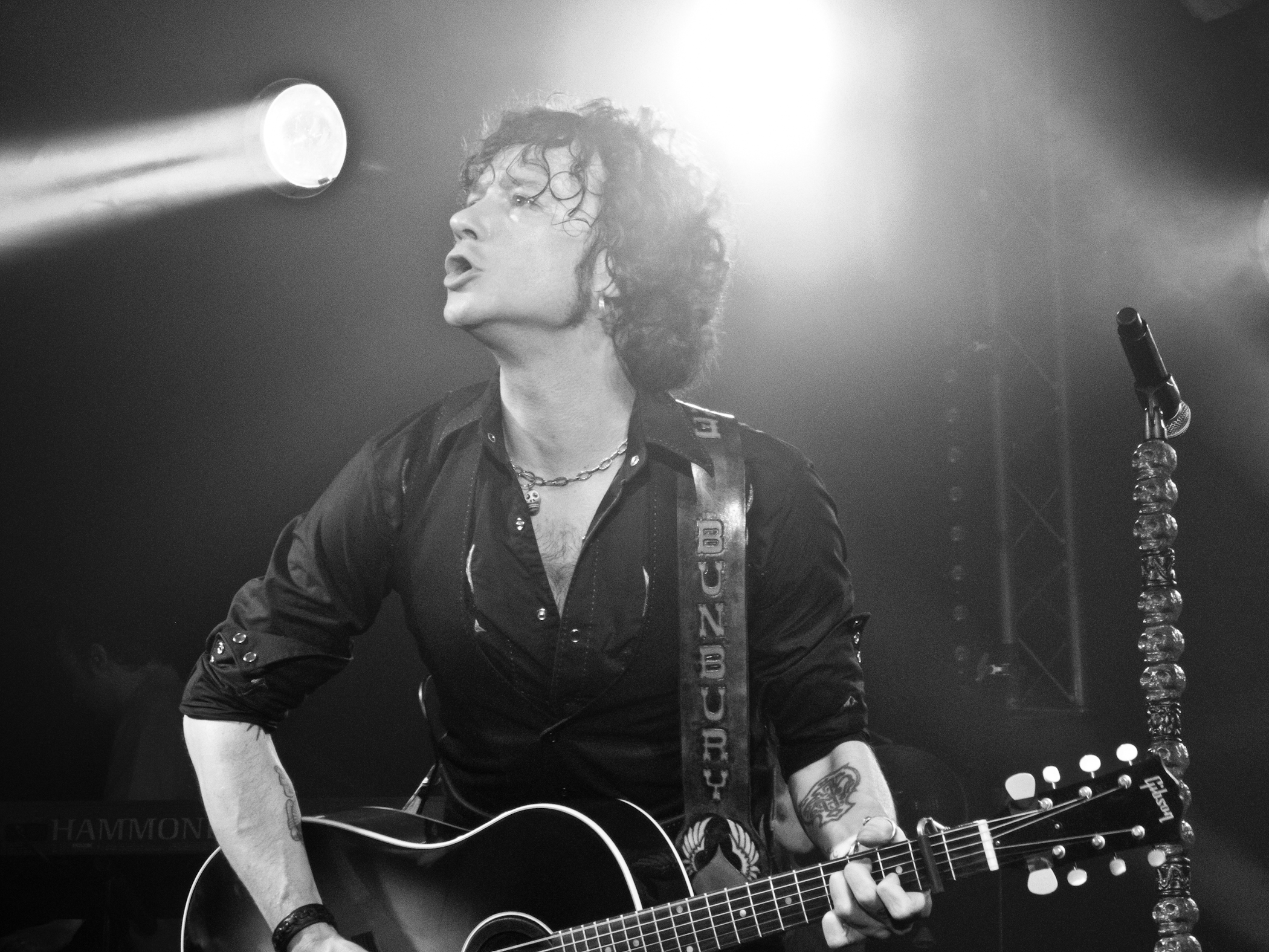 Enrique Bunbury during a concert in 2012.